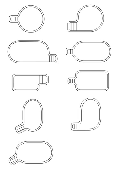 Swimming pool shapes